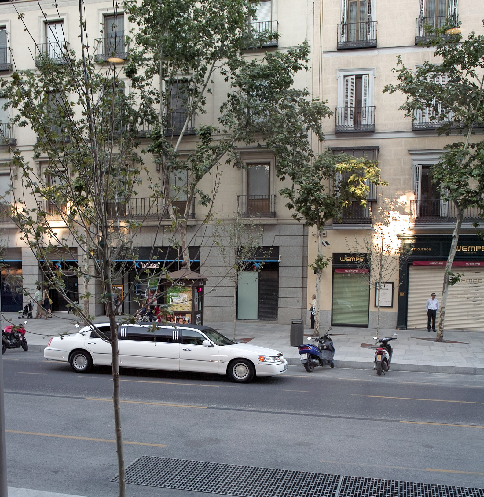 Serrano street in Madrid.